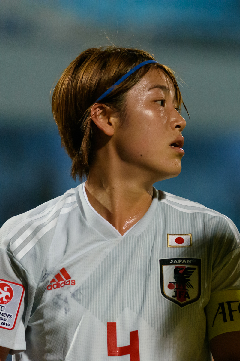 Hana Takahashi during the 2019 AFC U-19 Women's Championship semi-final match vs Australia on 6 November 2019